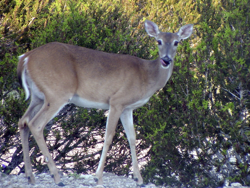 White-tailed deer doe